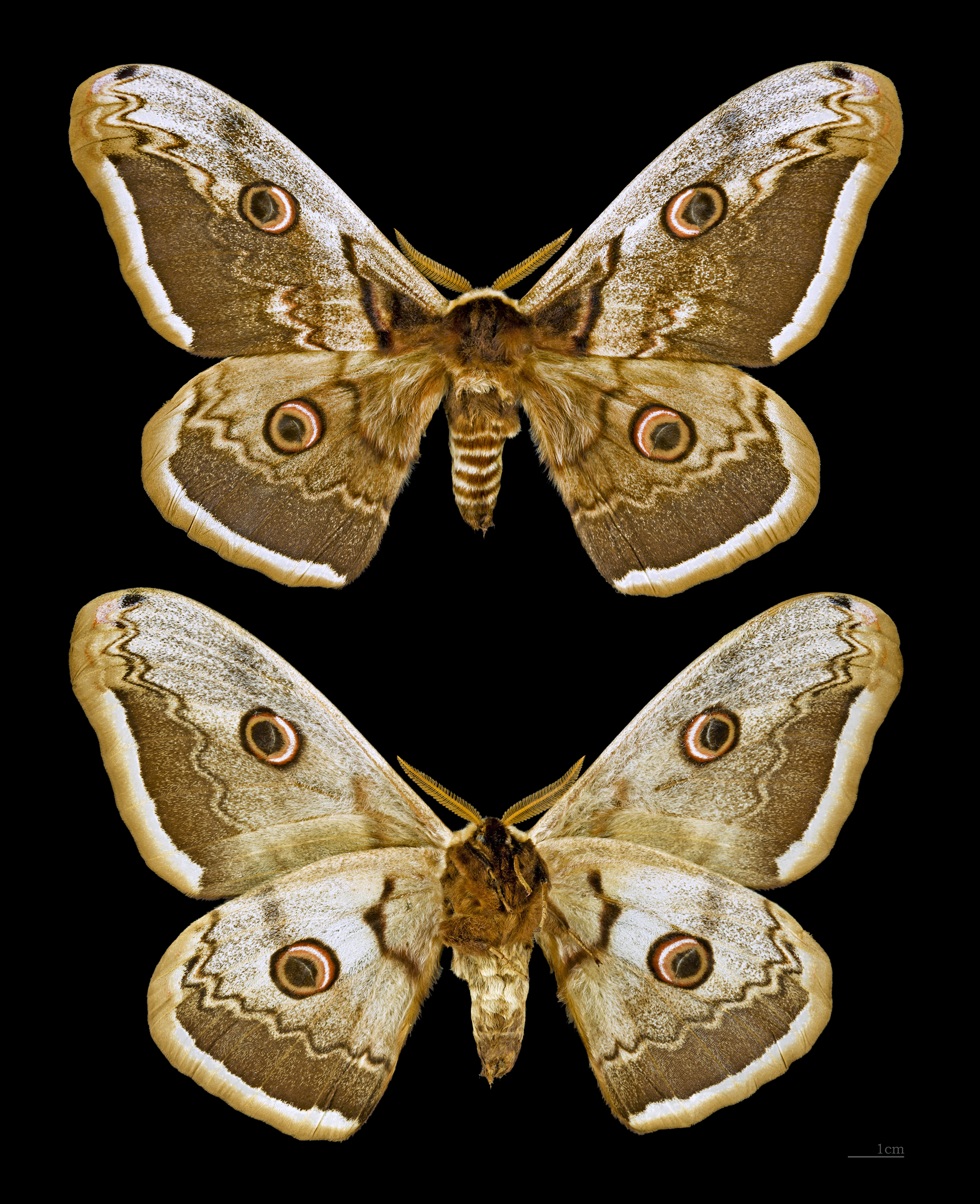 Giant Peacock Moth - Two views of same specimen